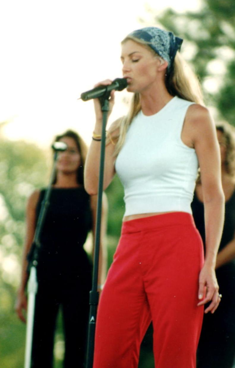 Recording artist Faith Hill performing in Jackson, MS